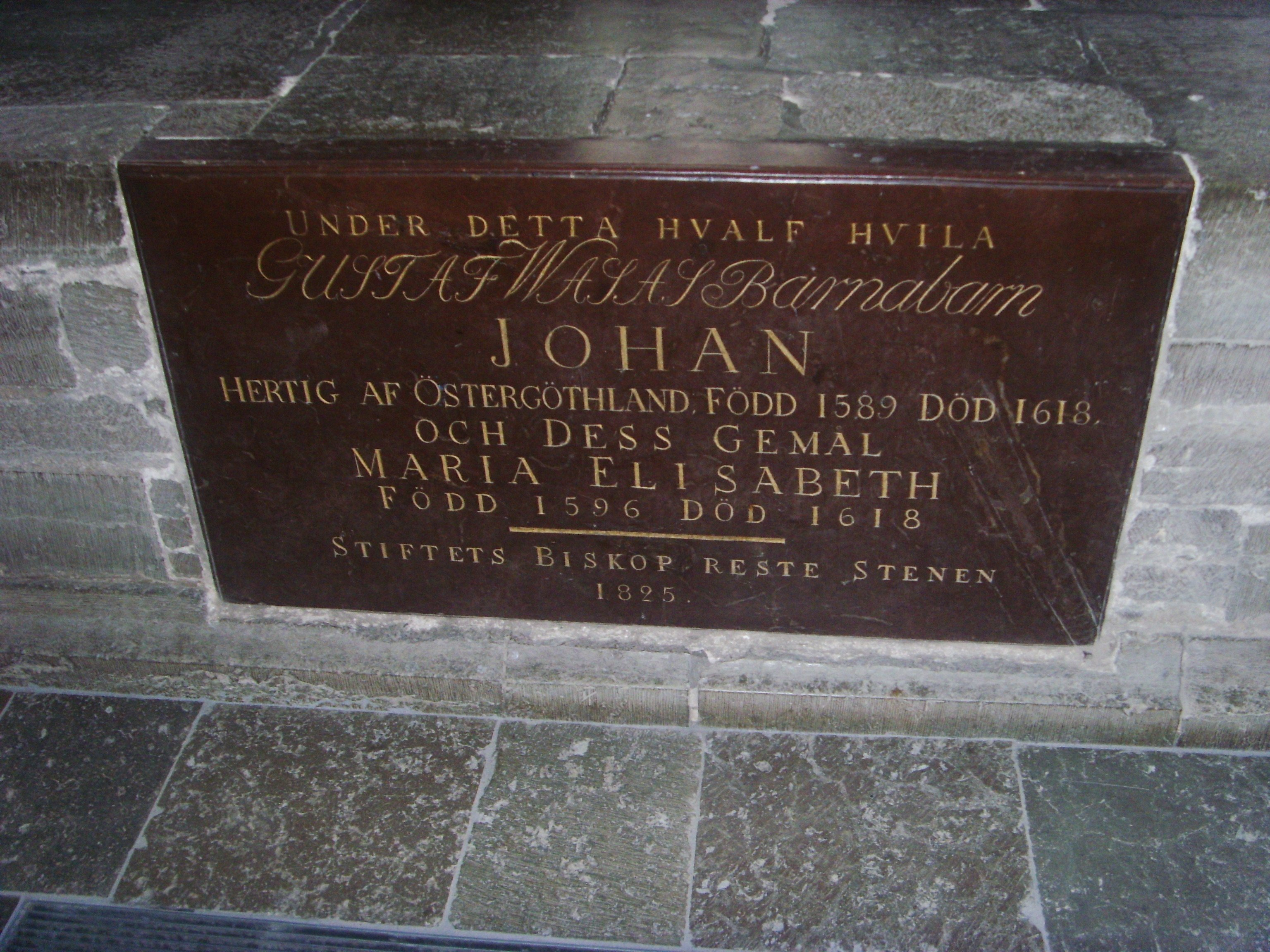 The Sarcophaguse for the duke Johan of Östergötland. Son to the king Johan III of Sweden and halfbrother to the king Sigismund of Sweden and Poland. His wife Maria Elisabeth in the same sarcophaguse was also daughter to a king with the name Karl IX of Sweden and brother to the king Gustaf II Adolf of Sweden. The couple were cousins.